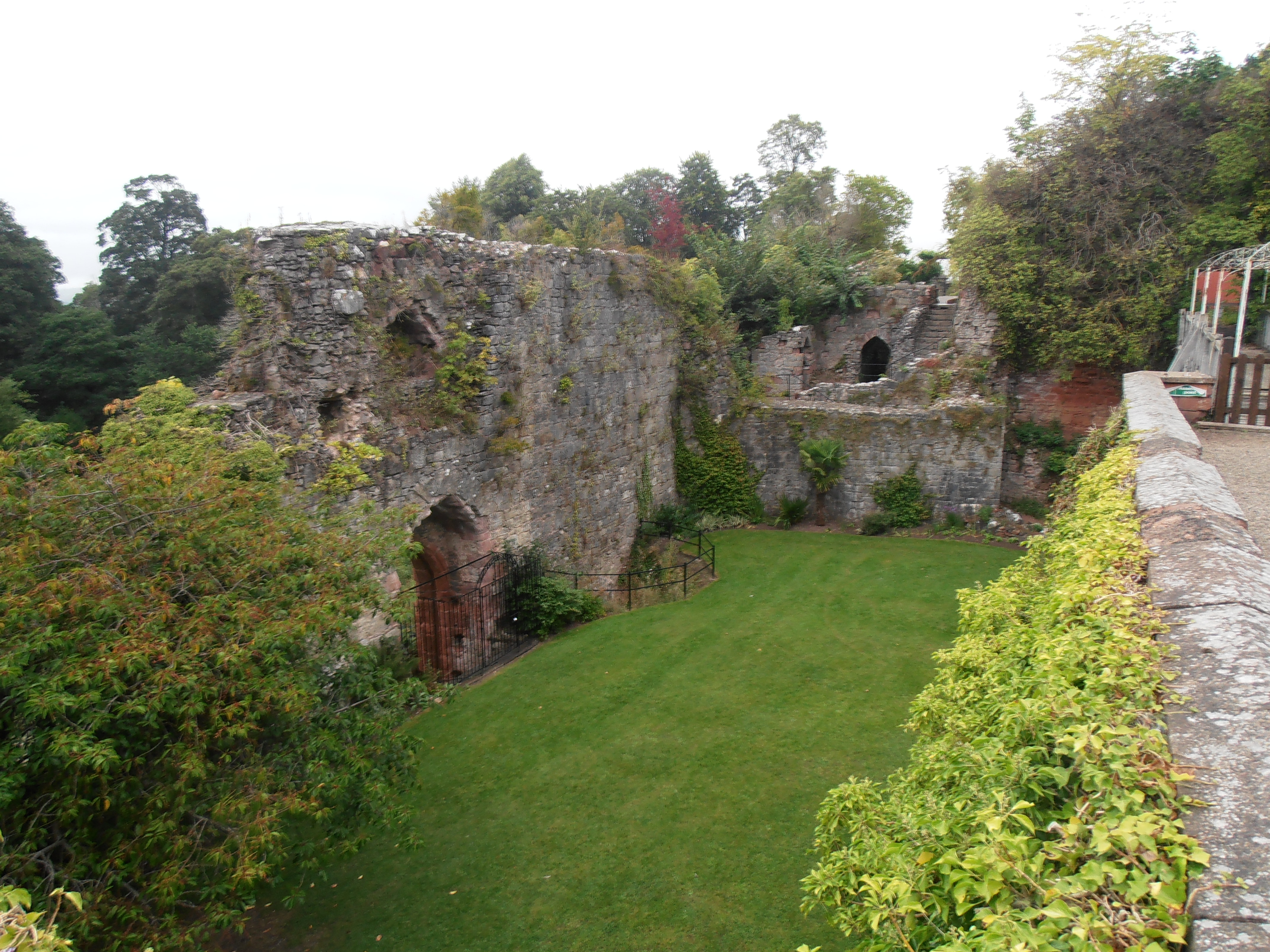 Castell Rhuthun (Ruthin Castle), Sir Ddinbych. Ruthin Castle, Ruthin, Denbighshire, Wales.